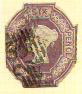 GB 6d Lilac Embossed Postage Stamp, 1847 Scanned from personal collection Jeff Knaggs 16:37, 22 Nov 2004 (UTC)